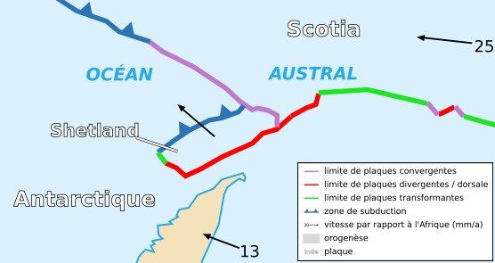 Map of the Shetland Plate